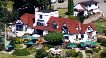 Aerial view of the Main Hall at Capernwray Harbour Bible School, Thetis Island, British Columbia. When the structure was built in 1926, it was one of the largest buildings in the Gulf Islands.